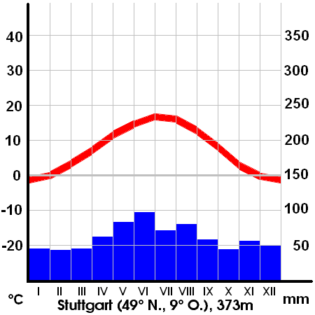 Climate diagram (in German) of Stuttgart in Germany created with